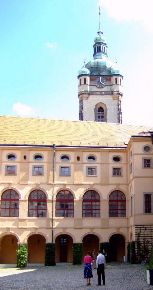 Courtyard of Mělník Castle witch tower of neighbouring SS Peter and Paul church in the background. Aufnahme: 3. Juli 2006 Url